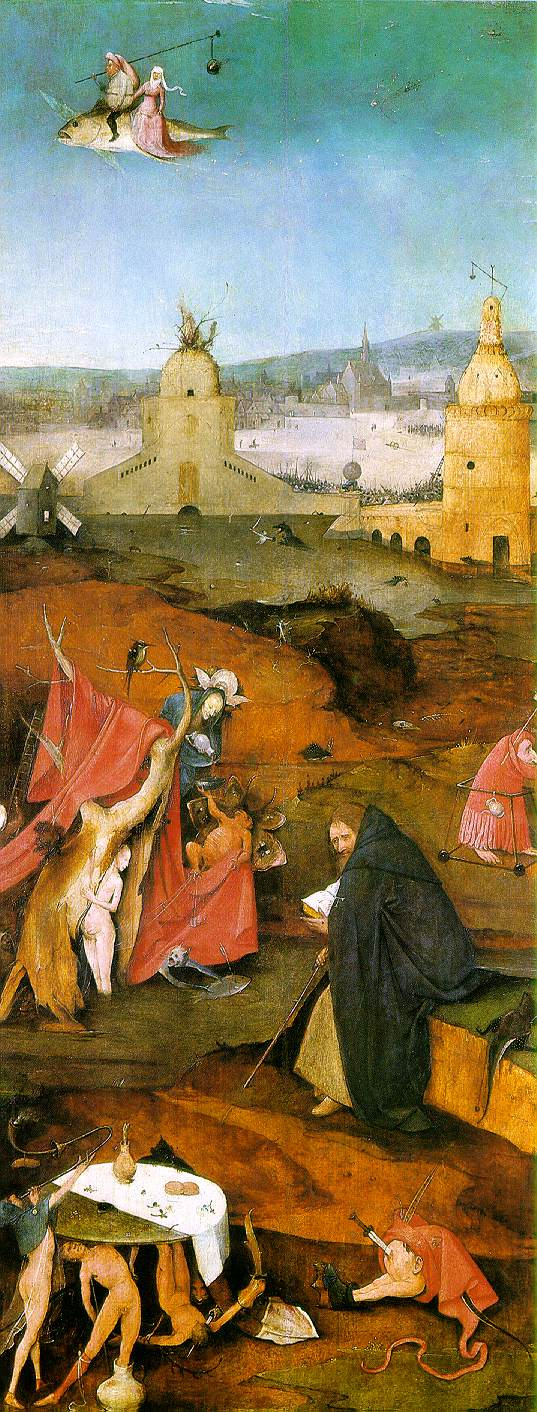 Inner right wing of a triptych depicting The Temptation of Saint Anthony.